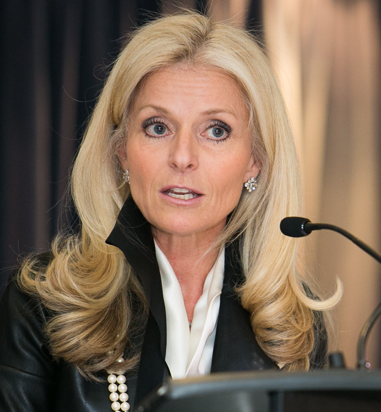 Isabelle Hudon at a panel discussion on appearance and gender equity in Montreal, Québec as part of the Women Shaping Business program.